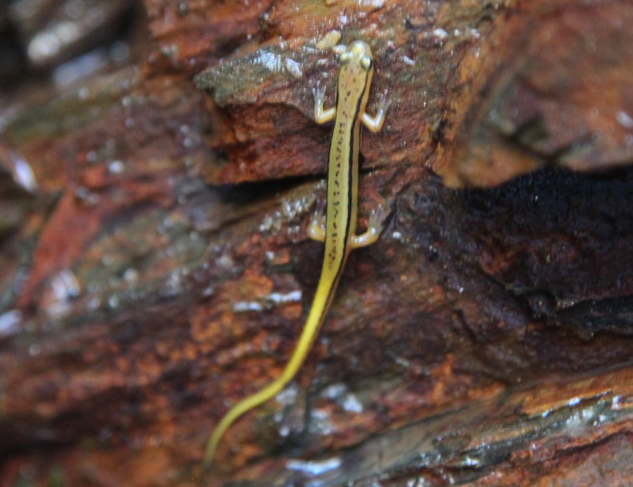 Blue Ridge Two-Lined Salamander is found in the southern Appalachian Mountains, mainly south of Virginia and throughout the Great Smoky Mountains National Park.